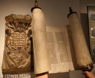 Torah and Torah Mantle